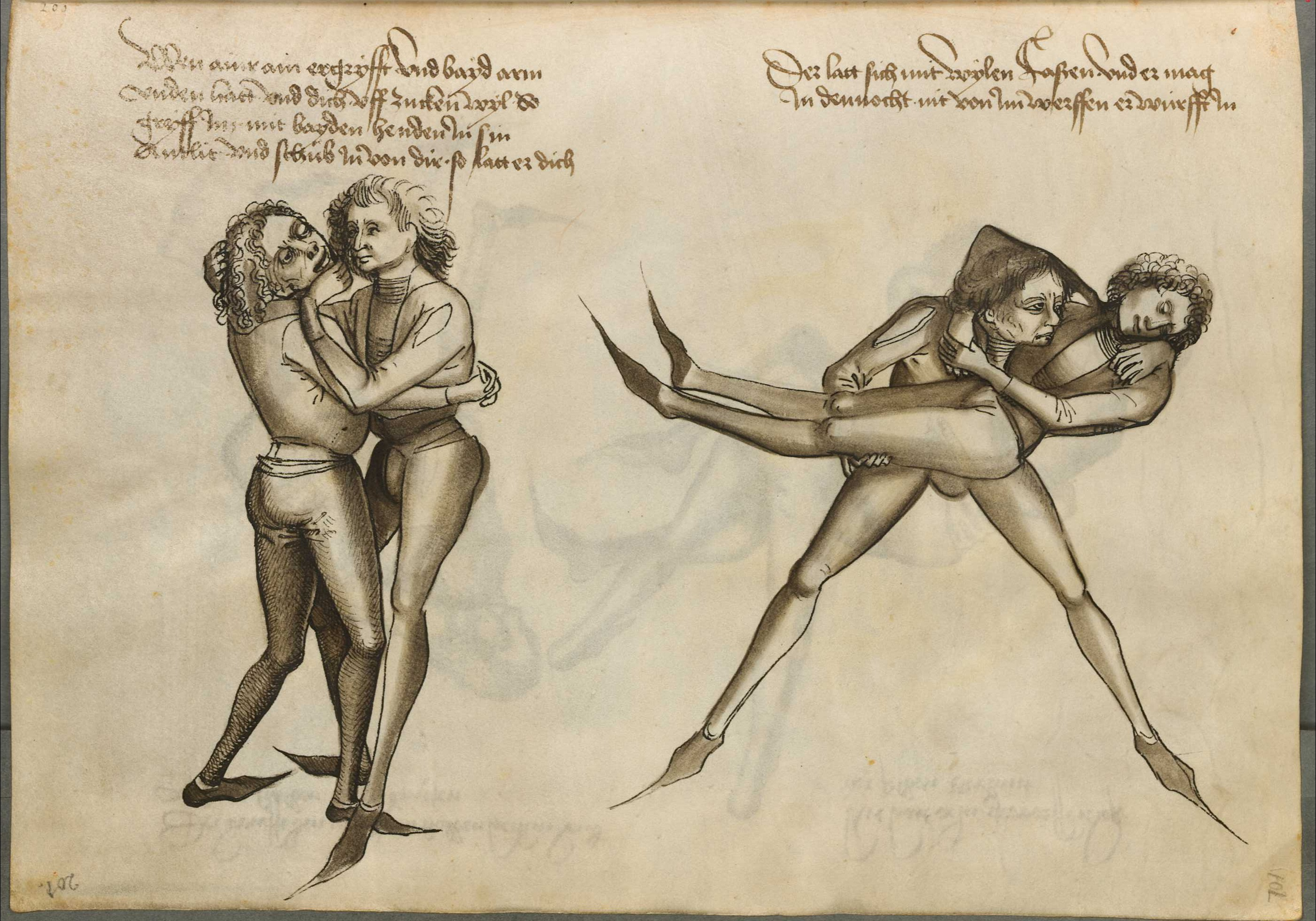 This is a scan of the historical Fechtbuch ('fencing book') by German fencing master Hans Talhoffer.